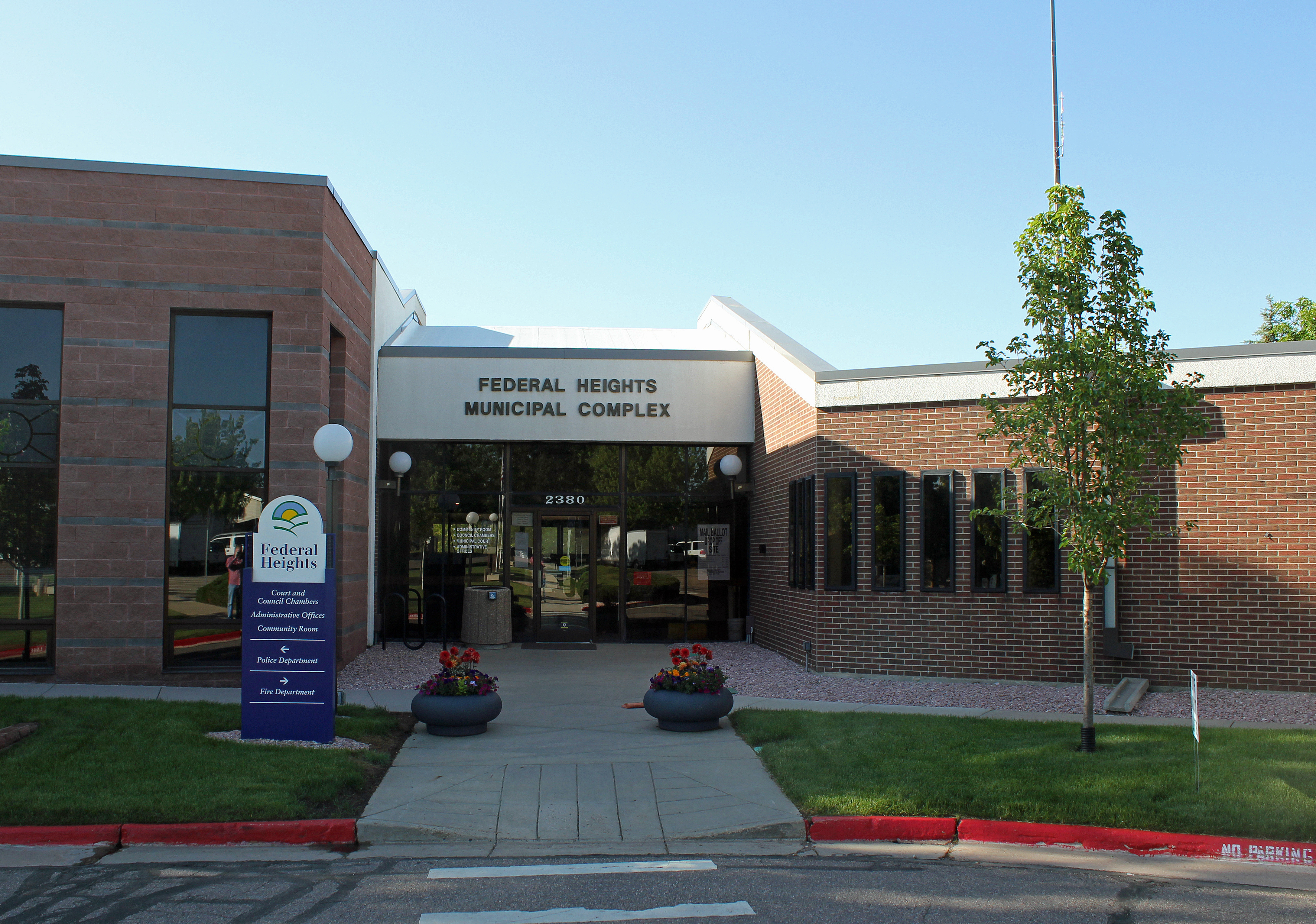 The Federal Heights Municipal Complex (city hall), located at 2380 W. 90th Avenue, Federal Heights, Colorado, 80260.